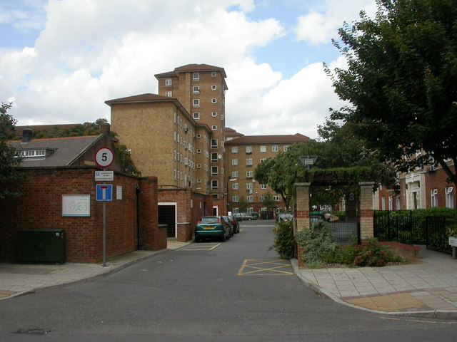 South Lambeth, Lansdowne Green Social housing off Lansdowne Way, managed by SLFHA.